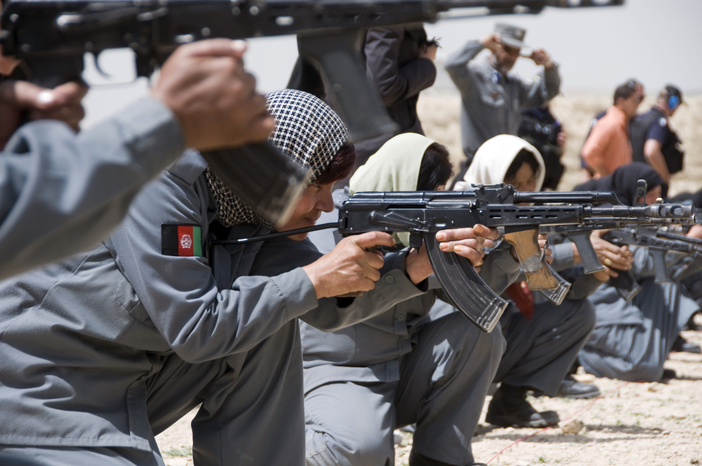 Afghan National Police women qualify on the AK-47 rifle during the tactical training program portion of the police basic training course at Kabul Military Training Center, April 13, 2010. During the eight-week course, trainees learn police-specifics such as penal and traffic codes, use of force and improvised explosive device detection. The course also covers the Afghan constitution, human rights and two weeks on weapons and tactical training. (U.S. Air Force photo by Staff Sgt. Sarah Brown. 100413-F-1020B-017)